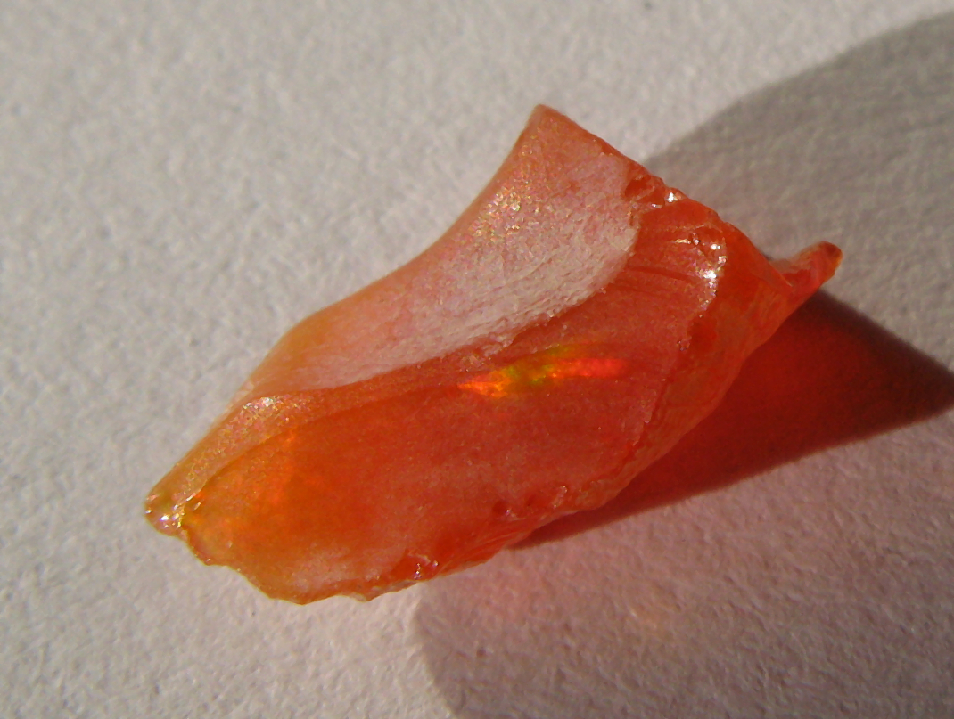 Fire opal - raw stone, macro-shot opalescent